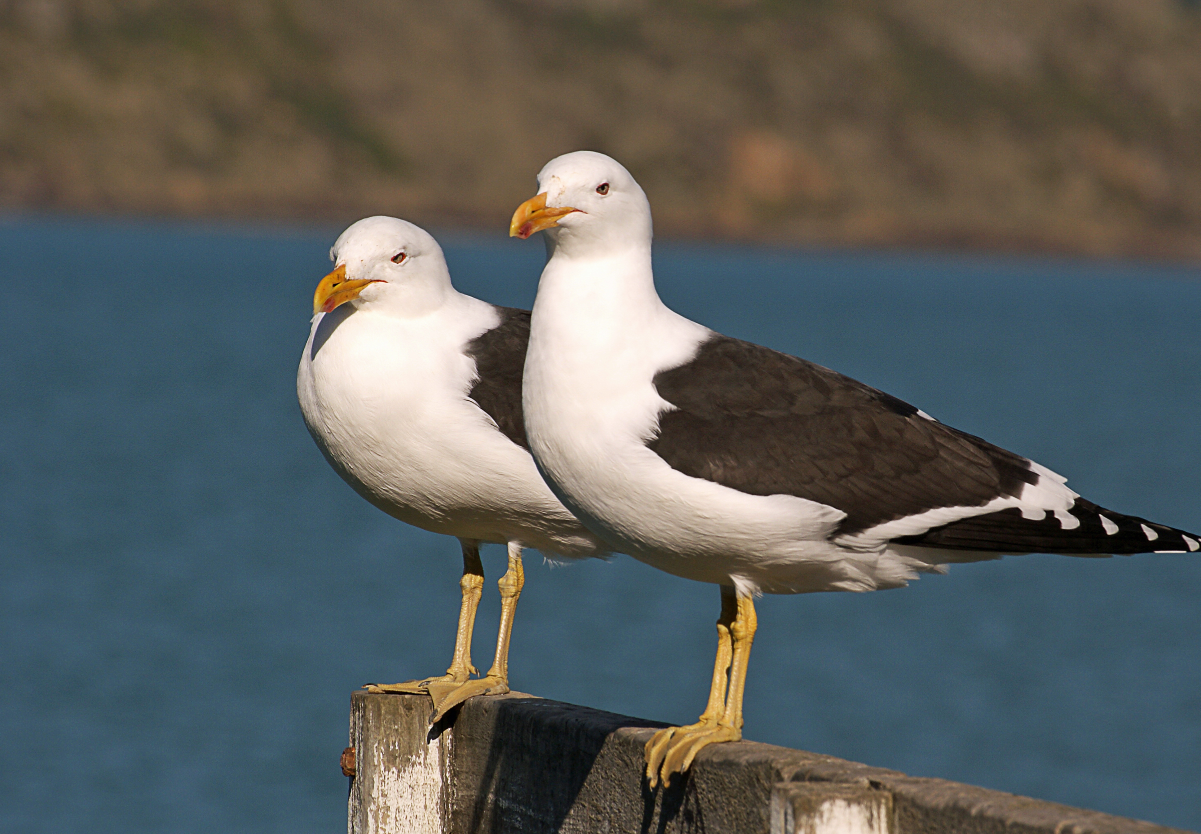 Black-backed gulls Black-backed gulls or karoro (Larus dominicanus) can be found in the southern hemisphere from Antarctica to the subtropics. Elsewhere they are known as Dominican or kelp gulls. The subspecies in New Zealand is the widespread Larus dominicanus dominicanus. There are probably over two million in coastal and near-shore environments, and inland waterways. They do not generally venture far out to sea. Of New Zealand’s gull species, black-blacked gulls are the largest, at 60 centimetres long. Males weigh over 1 kilogram, and females about 850 grams. Adults have white bodies, black wings, and yellow bills and legs.